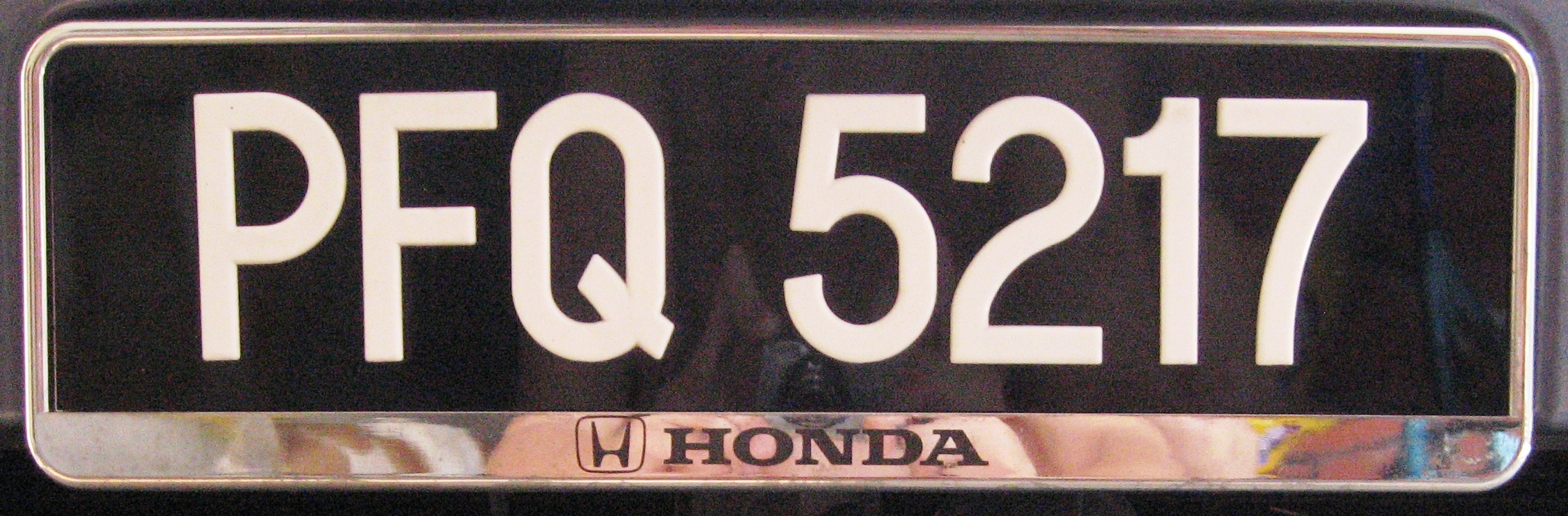 License plate from Penang, Malaysia, front.